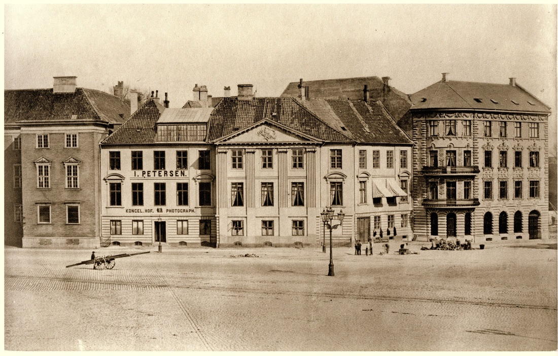 Photograph of Kongens Nytorv in Copenhagen, Denmark. Source: "Kongens Nytorv 3 Harsdorffs Hus, foto 1866. (Foto fra Københavns Museum). 1865-1875 Kgl. Hoffotograf Jens Petersens fotografiske virksomhed. Billedet må være taget af ham selv."